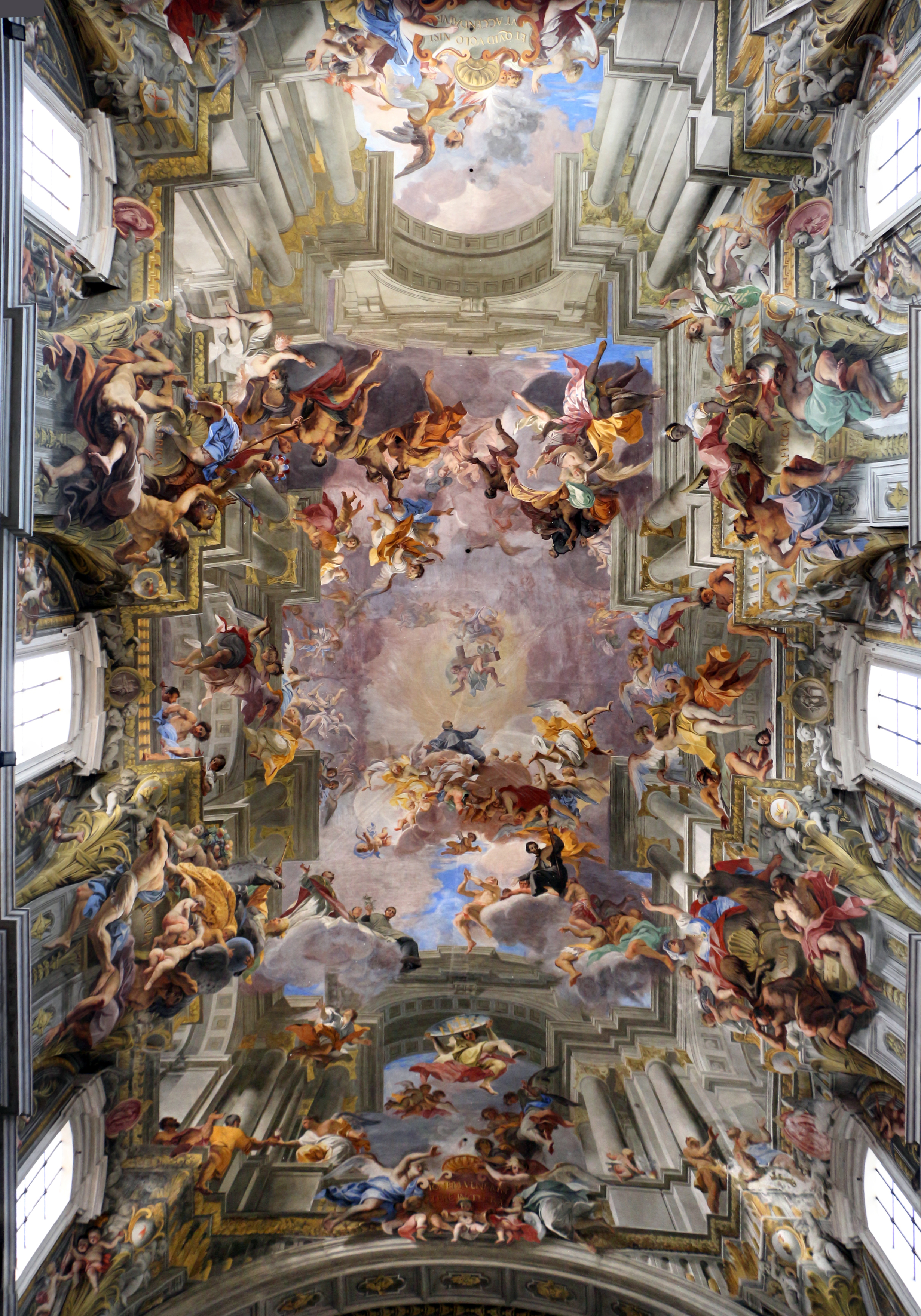 Sant'Ignazio (Rome)